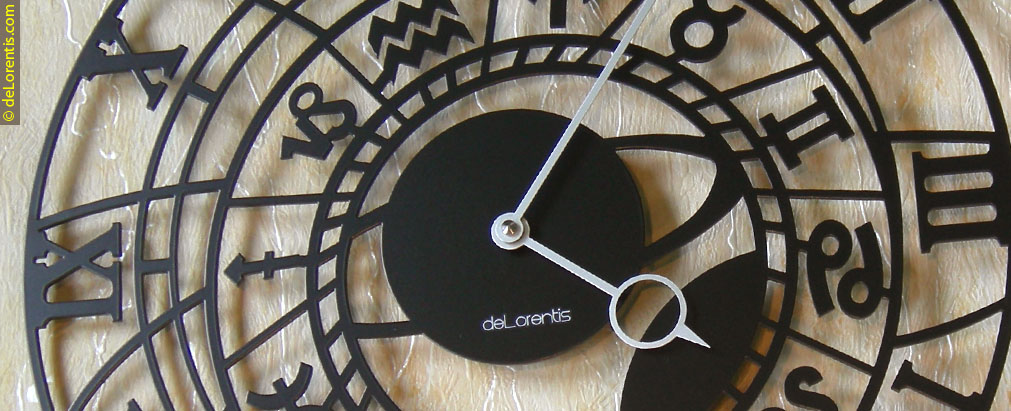 Original Zodiacal Wall Clock Designed and Manufactured using Laser Cutting Machine